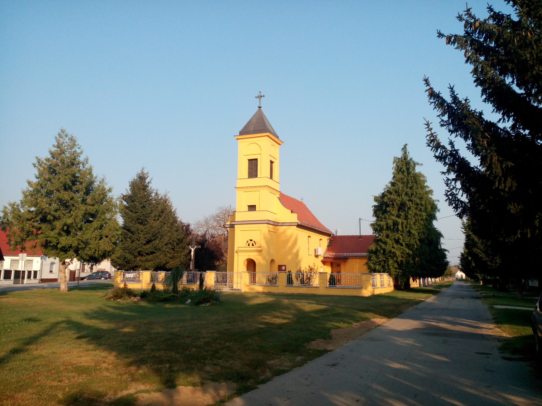 St. Catherine's Church, Nard.